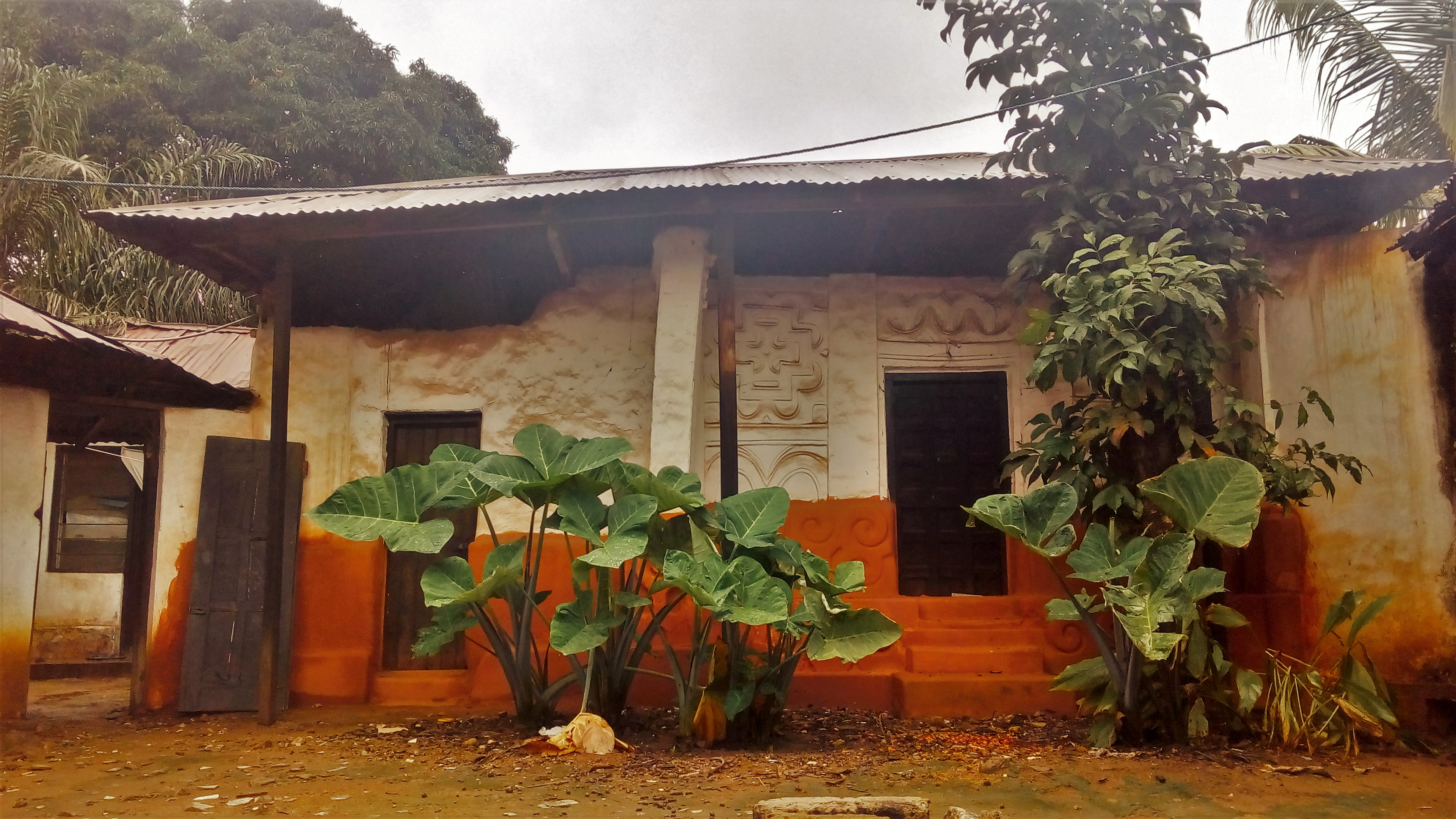 The Kentinkrono shrine is part of the main Tano shrines that was used to protect the warrior Akonfo Anokye.